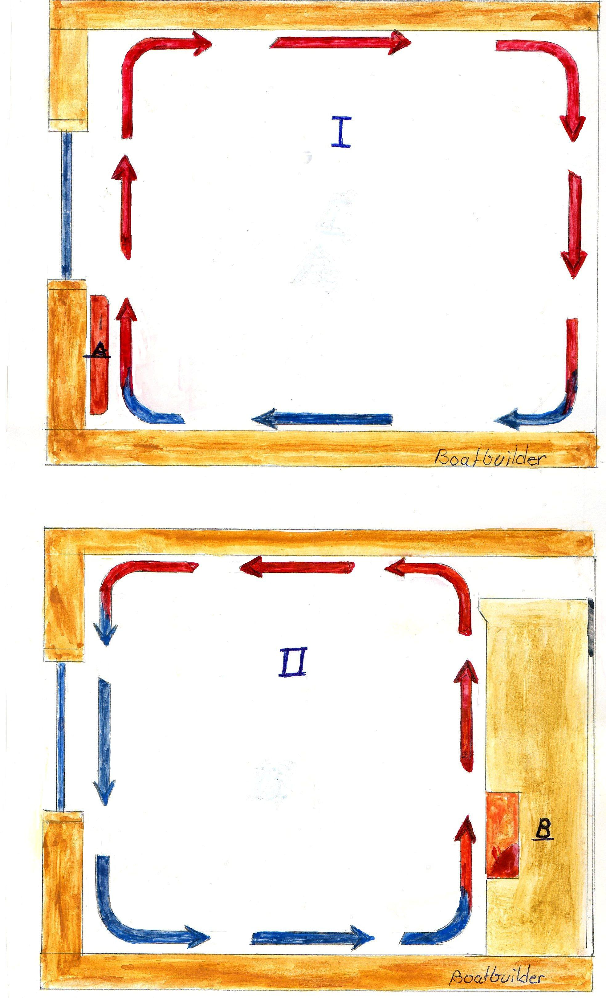 Convection with too different heating systems to heat a room up.